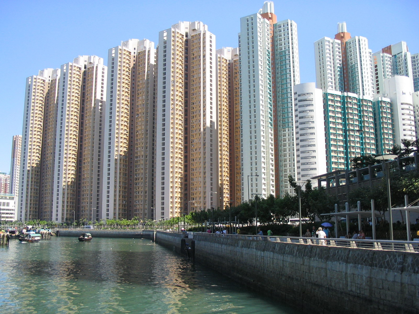 愛秩序灣住宅群 Residential Buildings in Aldrich Bay